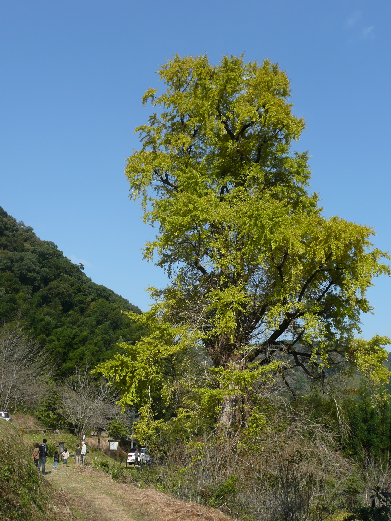 Ginkgo Tree in Sarukawa (Takaoka, Miyazaki City, Japan)